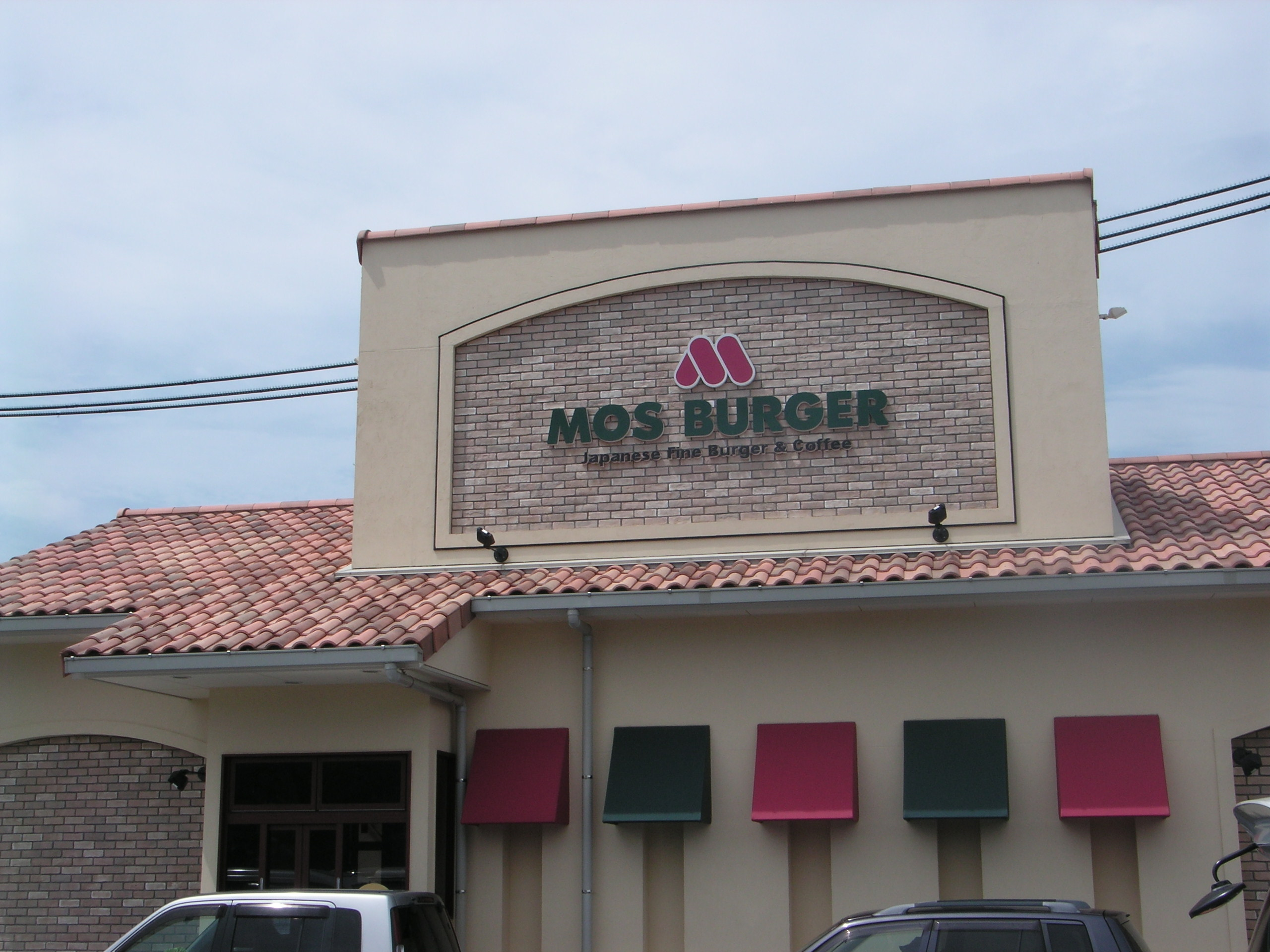 Mos Burger Shirahama, Wakayama